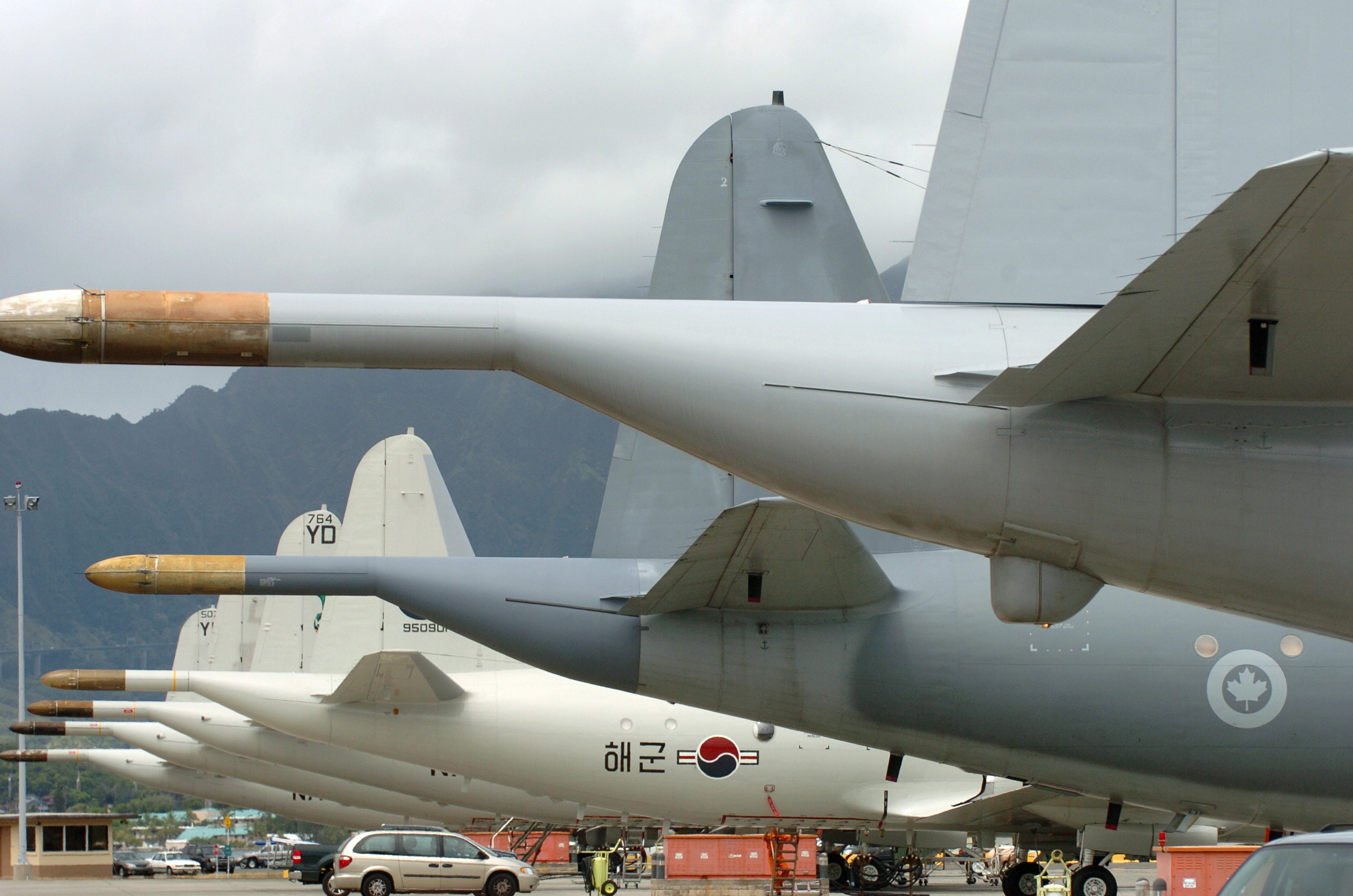 Kaneohe Marine Corps Base, Hawaii: Canadian and Republic of Korea Navy P-3 Orions are staged on the tarmac at Kaneohe Marine Corps Base in support of Exercise Rim of the Pacific (RIMPAC) 2006. Eight nations are participating in RIMPAC, the world's largest biennial maritime exercise. Conducted in the waters off Hawaii, RIMPAC brings together military forces from Australia, Canada, Chile, Peru, Japan, the Republic of Korea, the United Kingdom and the United States.